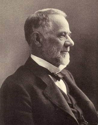 Picture of Henry G. Davis